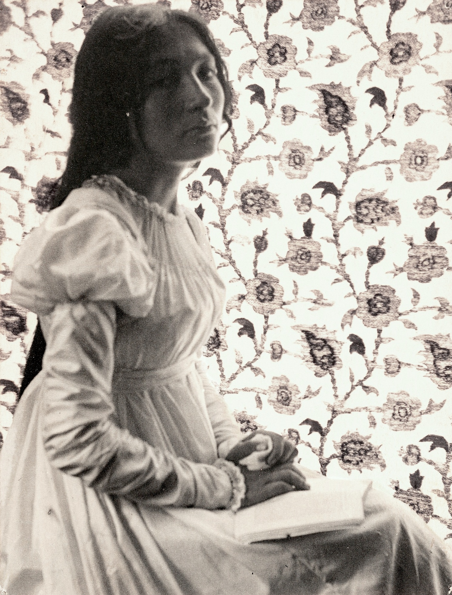 In addition to photographing the Sioux performers sent by Buffalo Bill Cody to her studio, Käsebier was able to arrange a portrait session with Zitkala Sa, "Red Bird," also known as Gertrude Simmons (1876-1938), a Yankton Sioux woman of Native American and white mixed ancestry. She was born on the Pine Ridge Reservation in South Dakota, like many of the Sioux traveling with the Wild West show. She was educated at reservation schools, the Carlisle Indian School, Earlham College in Indiana, and the Boston Conservatory of Music. Zitkala Sa became an accomplished author, musician, composer, and dedicated worker for the reform of United States Indian policies. Käsebier photographed Zitkala Sa in tribal dress and western clothing, clearly identifying the two worlds in which this woman lived and worked. In many of the images, Zitkala Sa holds her violin or a book, further indicating her interests. Käsebier experimented with changing backdrops, including a Victorian floral print, and photographic printing. She used the painterly gum-bichromate process for several of these images, adding increased texture and softer tones to the photographs.